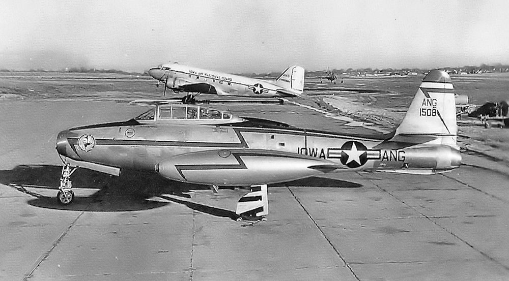 124th Fighter Interceptor Squadron - Republic F-84E-25-RE Thunderjet 51-508